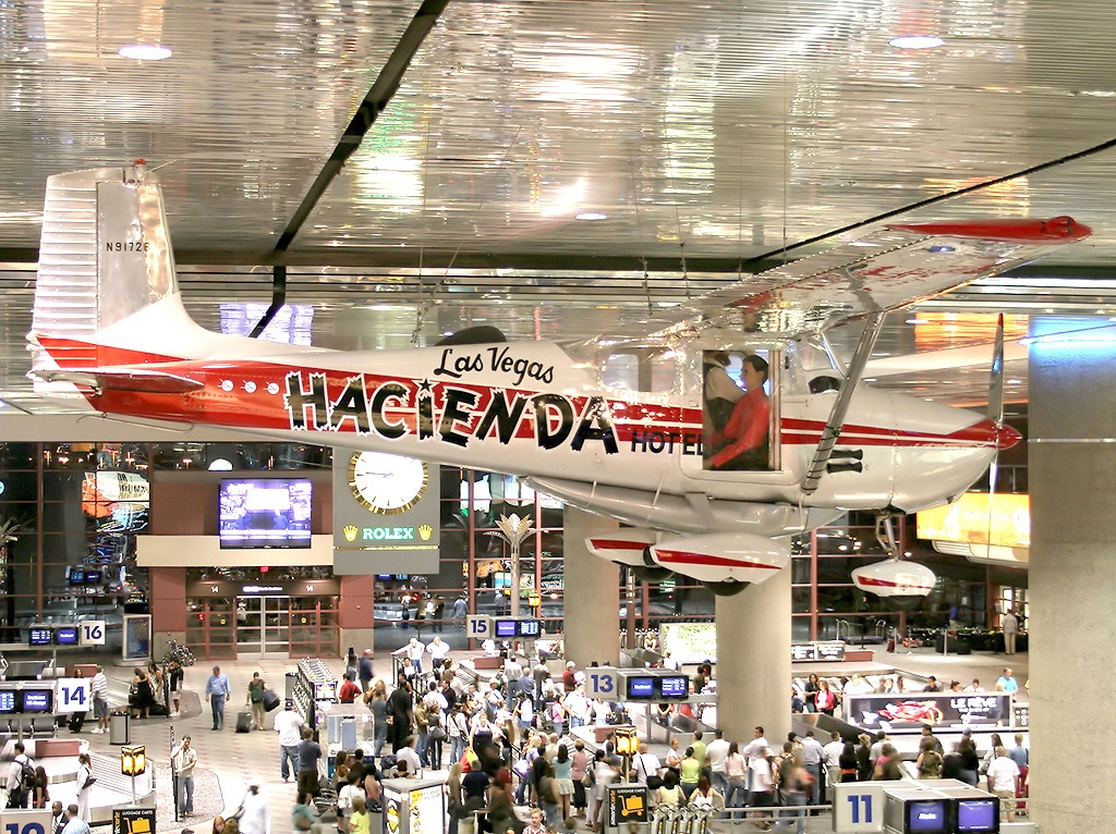 The Cessna 172 flown by Robert Timm and John Cook to set the record for the world's longest airplane flight (64 days, 22 hours, 19 minutes and 5 seconds), now hanging in McCarran International Airport, Las Vegas, Nevada